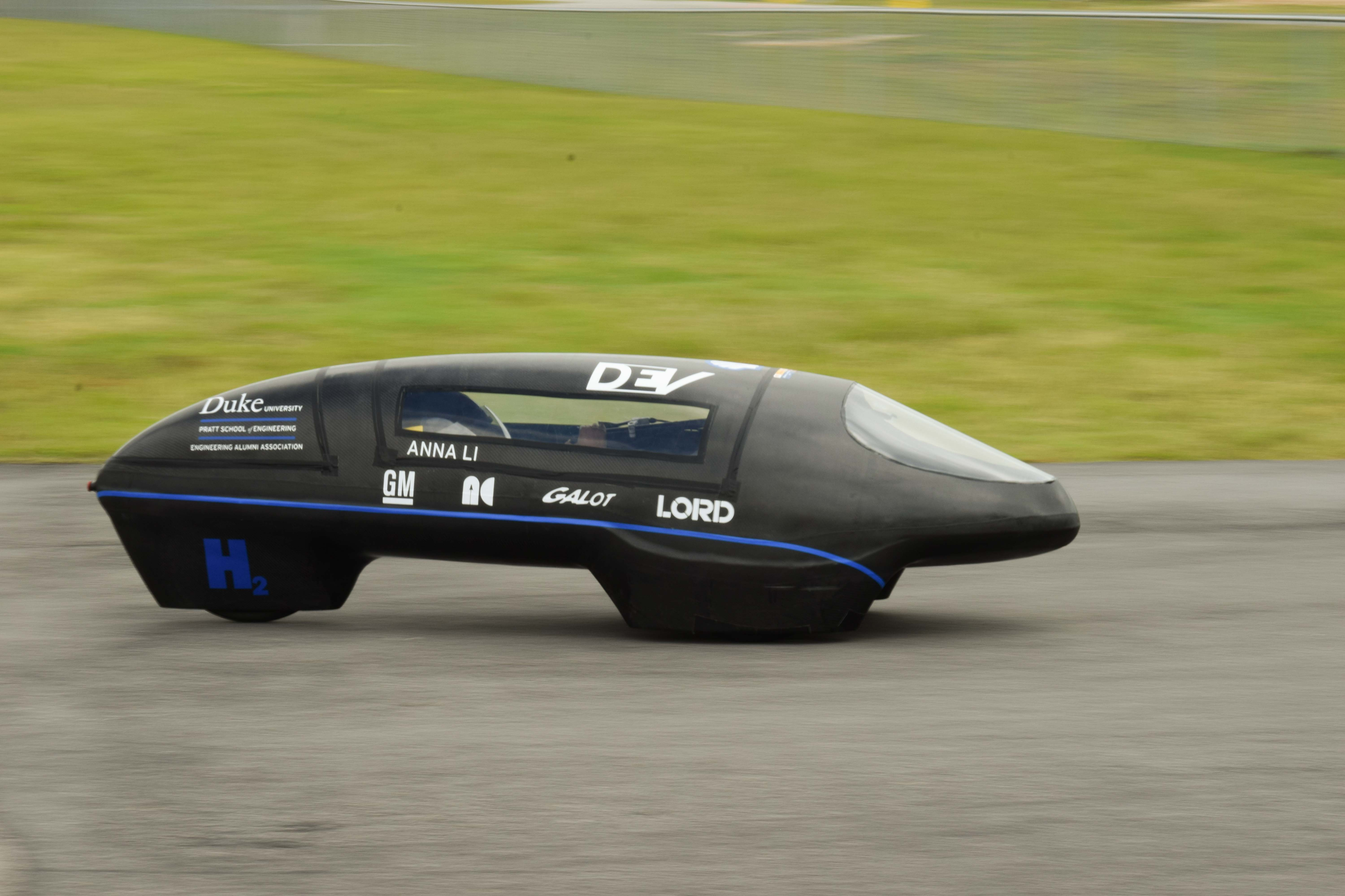 Taken at Galot Motorsports Park on July 21, 2018